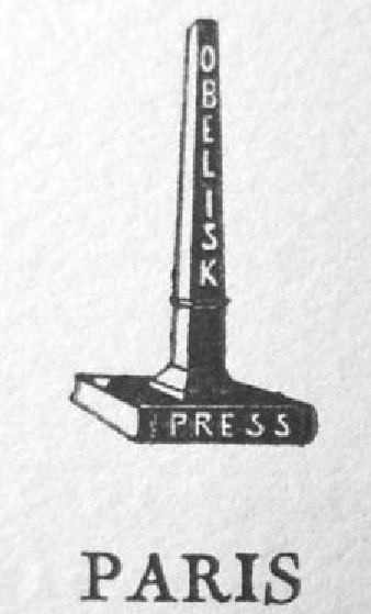 The Obelisk Press logo, printer in Paris [scan image].